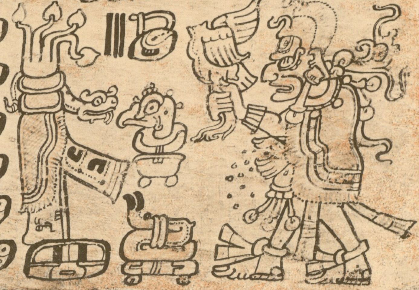 Crazy stuff